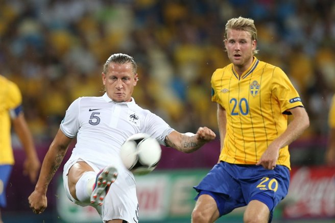 Philippe Mexès and Ola Toivonen at the Euro 2012 match Sweden-France